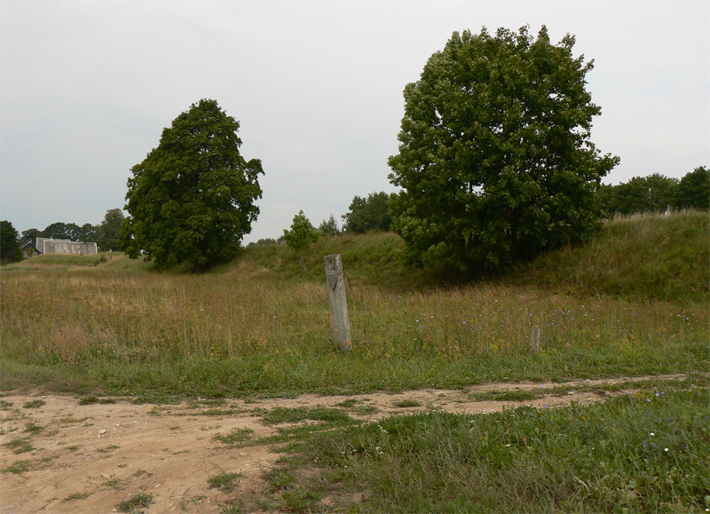 Fieldwork in Mirabelis Village, Kupiškis distric.